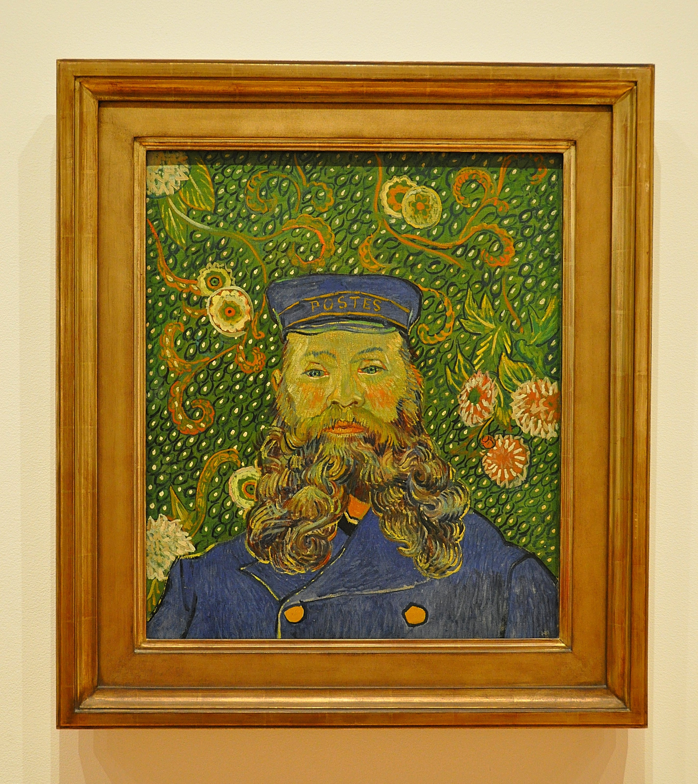 Vincent van Gogh. Portrait of Joseph Roulin. Arles, early 1889. Oil on canvas, 25 3/8 x 21 3/4" (64.4 x 55.2 cm). Gift of Mr. and Mrs. William A. M. Burden, Mr. and Mrs. Paul Rosenberg, Nelson A. Rockefeller, Mr. and Mrs. Armand P. Bartos, The Sidney and Harriet Janis Collection, Mr. and Mrs. Werner E. Josten, and Loula D. Lasker Bequest (all by exchange) Wikipedia Loves Art at the Museum of Modern Art This photo of item # 196.1989 at the Museum of Modern Art was contributed under the team name "Stephen_Sandoval" as part of the Wikipedia Loves Art project in February 2009. Museum of Modern Art The original photograph on Flickr was taken by Stephen Sandoval—please add a comment to the original Flickr page whenever a use has been made on Wikipedia or another project. Project galleries on Flickr: this institution, this team Vincent van Gogh. Portrait of Joseph Roulin. Arles, early 1889. Oil on canvas, 25 3/8 x 21 3/4" (64.4 x 55.2 cm). Gift of Mr. and Mrs. William A. M. Burden, Mr. and Mrs. Paul Rosenberg, Nelson A. Rockefeller, Mr. and Mrs. Armand P. Bartos, The Sidney and Harriet Janis Collection, Mr. and Mrs. Werner E. Josten, and Loula D. Lasker Bequest (all by exchange) Wikipedia Loves Art at the Museum of Modern Art This photo of item # 196.1989 at the Museum of Modern Art was contributed under the team name "Stephen_Sandoval" as part of the Wikipedia Loves Art project in February 2009. Museum of Modern Art The original photograph on Flickr was taken by Stephen Sandoval—please add a comment to the original Flickr page whenever a use has been made on Wikipedia or another project. Project galleries on Flickr: this institution, this team